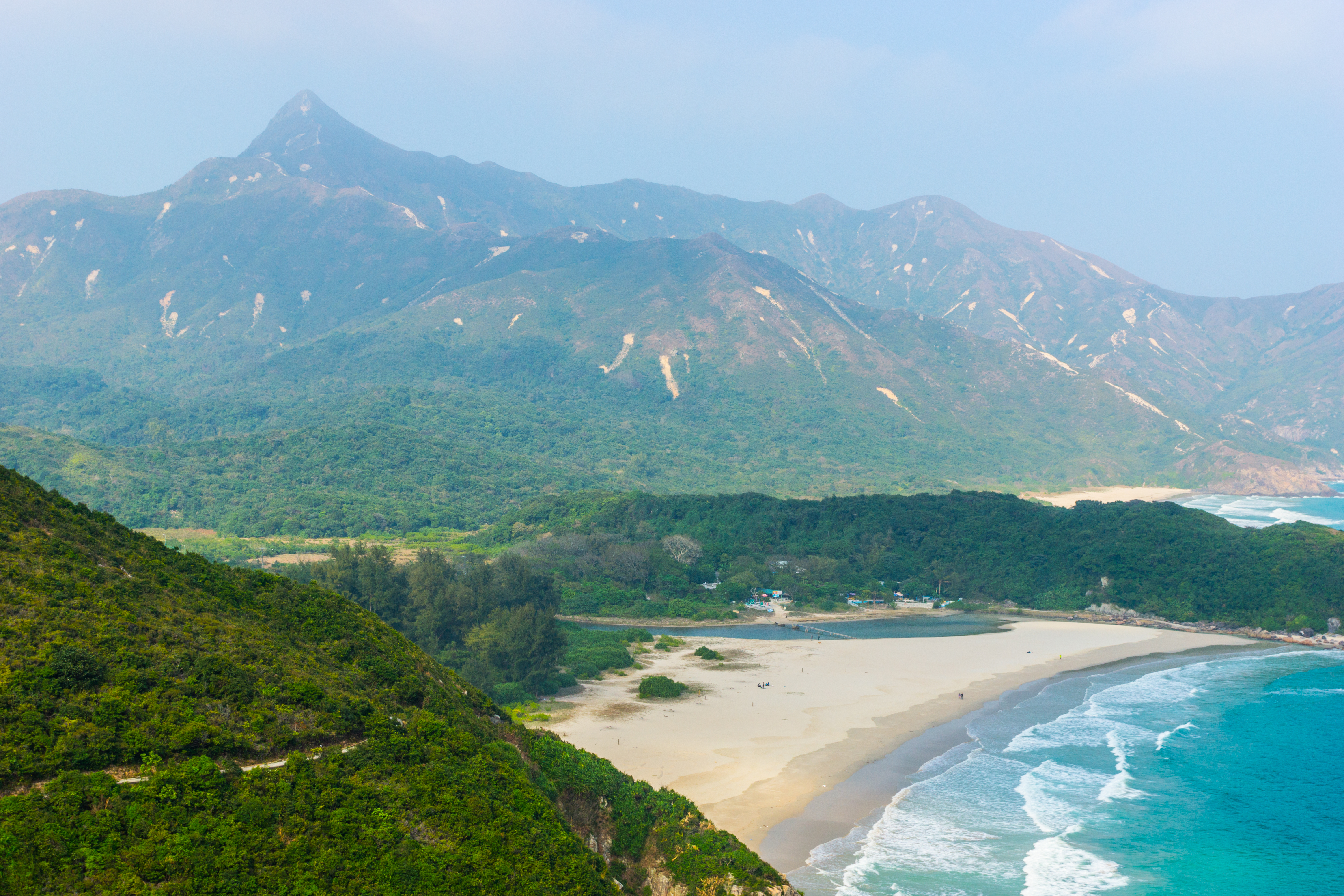 Ham Tin Wan (foreground) and Sharp Peak (background, top left) as seen from a segment of the MacLehose Trail.